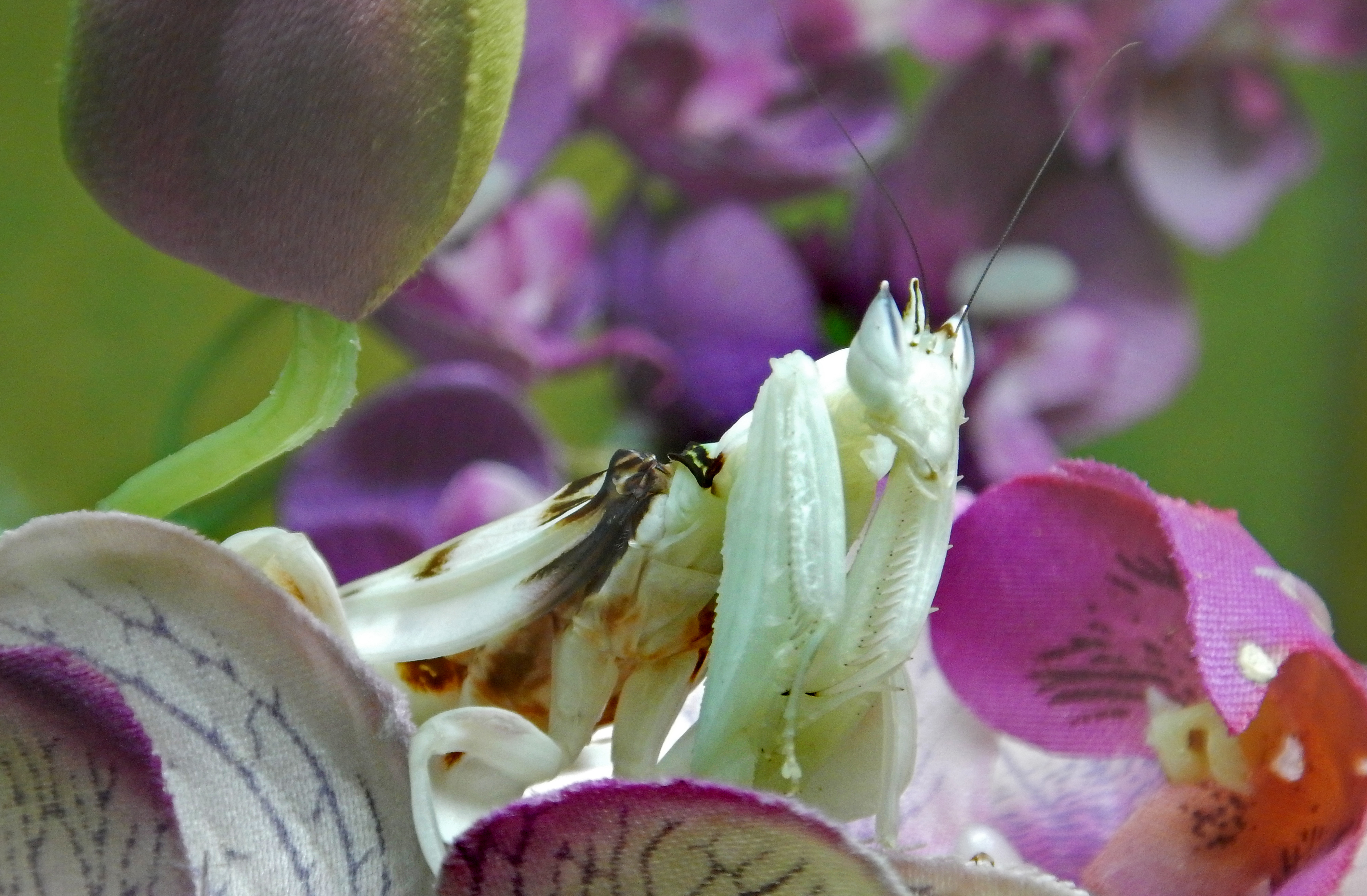 Hymenopus coronatus (Orchid Mantis) alive. previous legs and head. Natural History Museum of Lille